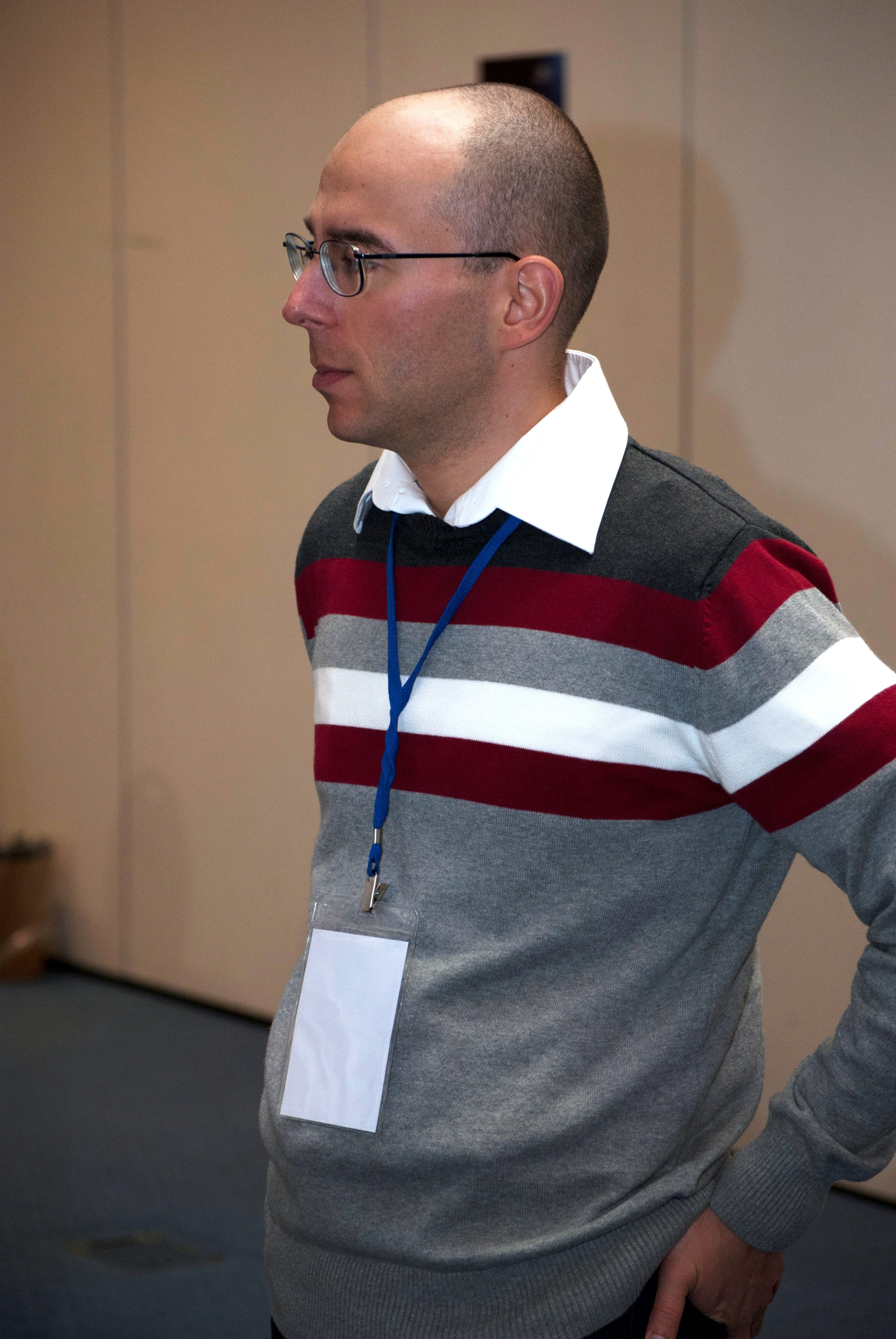 GM Mihajlo Stojanovic, Porto Carras EchT 2011.